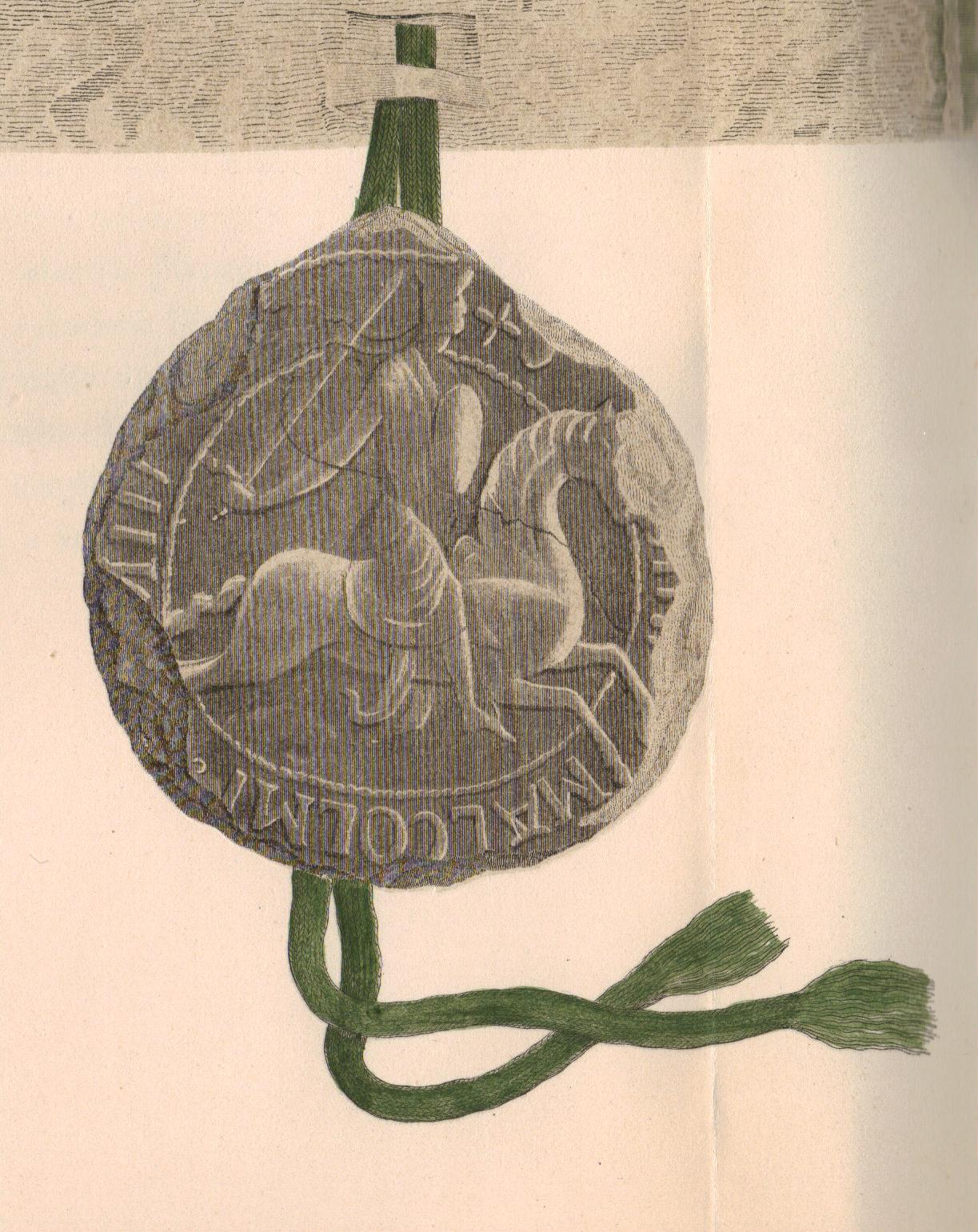 Seal of Maol Choluim I, Earl of Fife, attached to a charter to the house of North Berwick. Scanned from Carte Monialium De Northberwic, Prioratus Cisterciensis B. Marie De Northberwic Munimenta Vestuta Que Supersunt, Bannatyne Club. 40, (Edinburgi, 1847), facing p. 8.